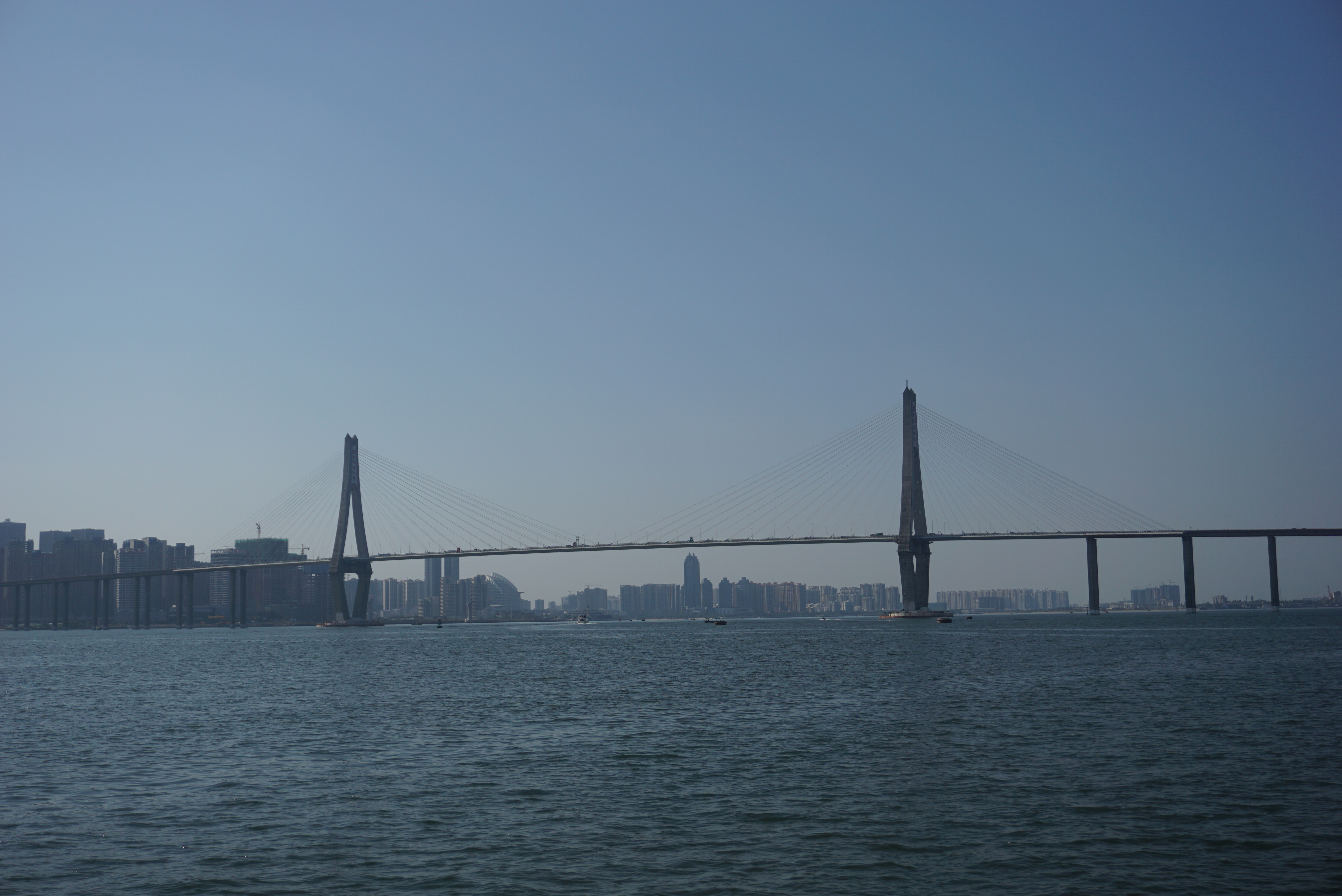 Zhanjiang Bay Bridge in Zhanjiang, Guangdong Province, shot from a ferry